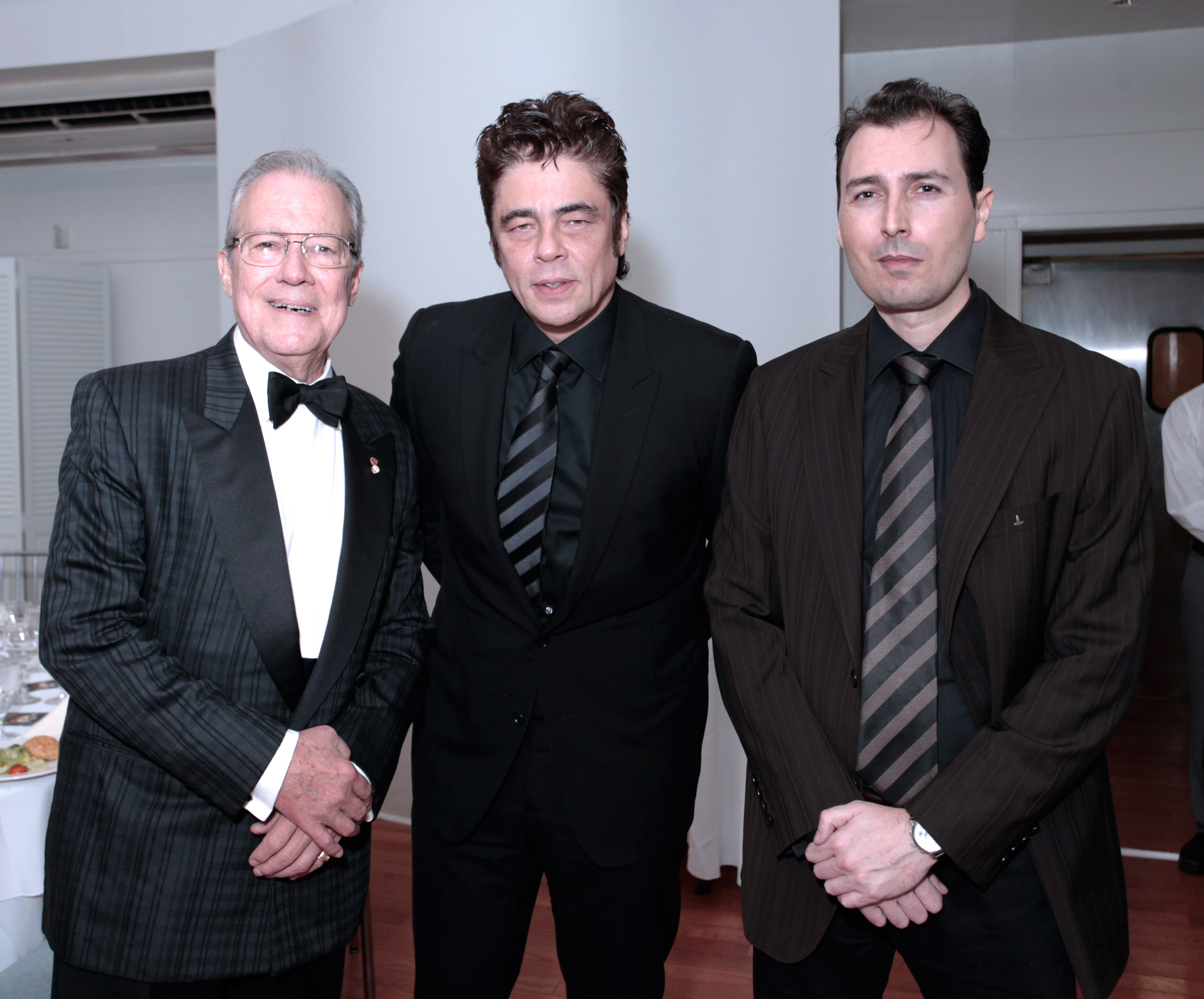 Manolo Garcia-Oliva, Benicio del Toro and Artur Balder at HOLA Awards Ceremony